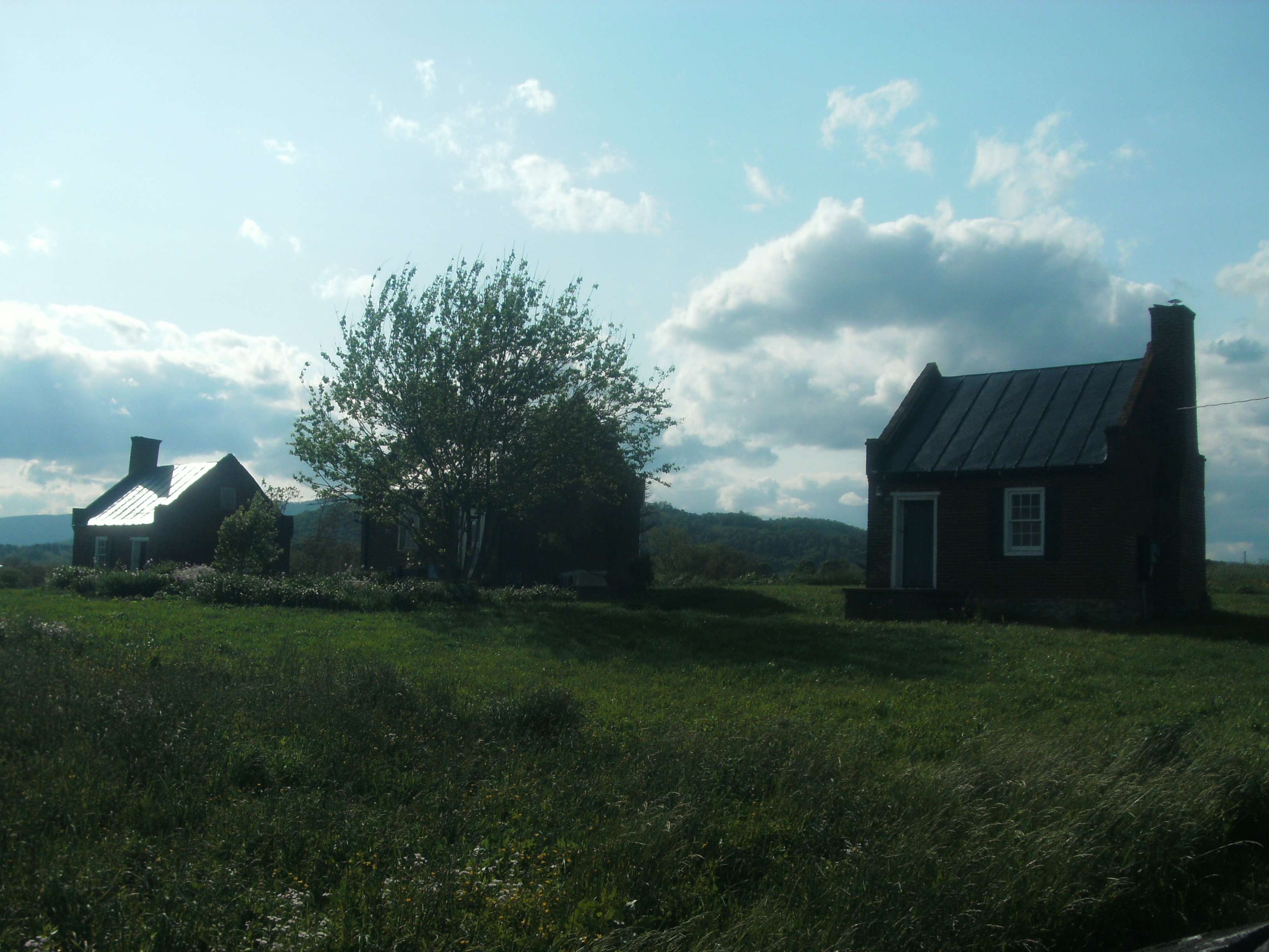 Taken by me in May, 2016 GEDSC DIGITAL CAMERA